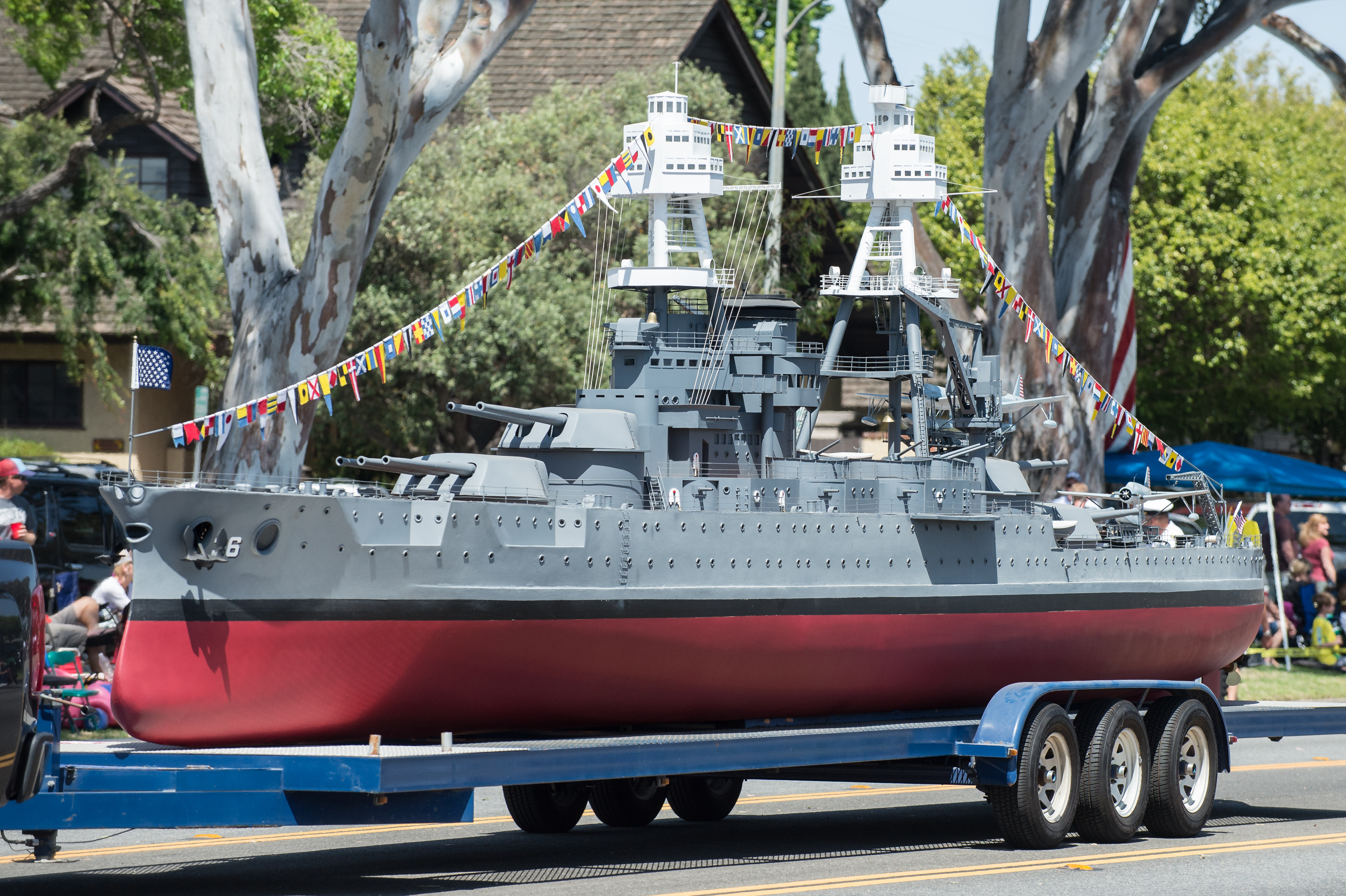 "Movie Star" of the 1970 Film TORA! TORA! TORA!